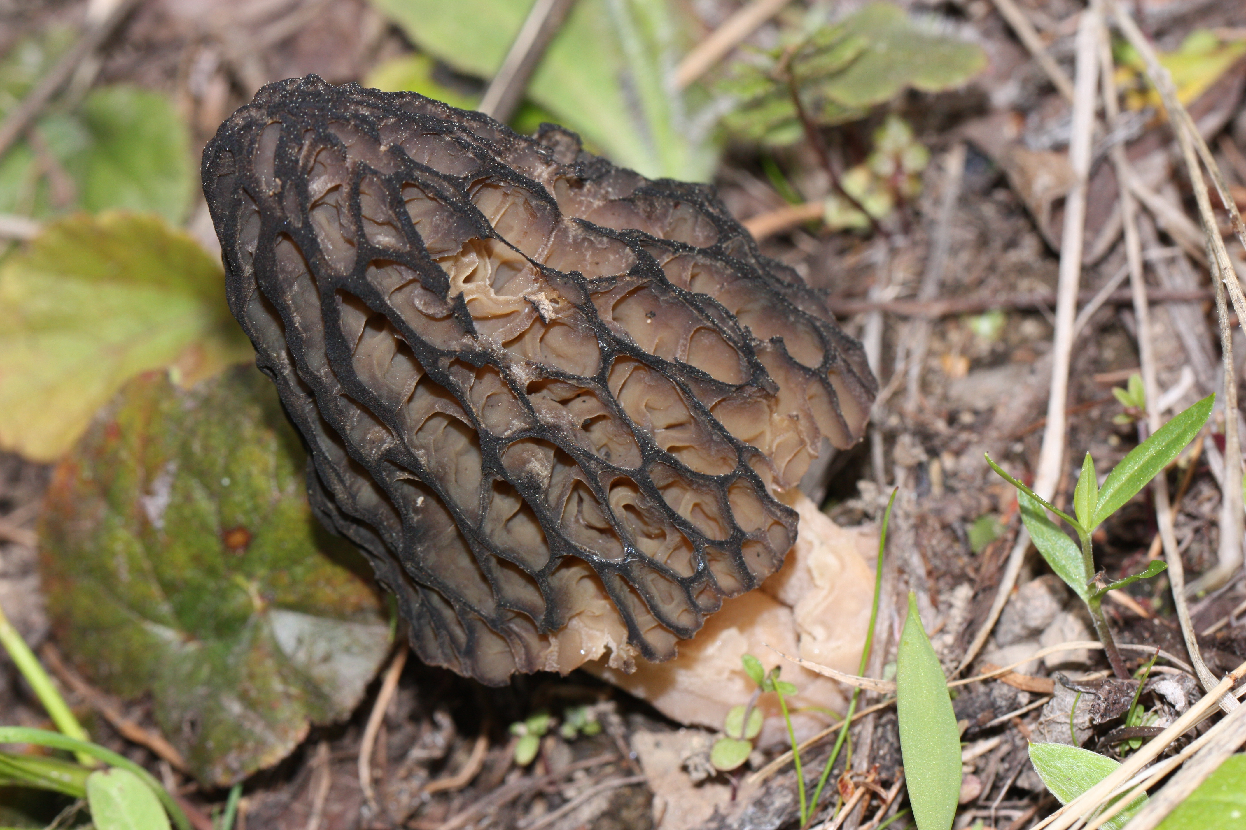 Black Morel Viewpoint location: Tronsen Ridge Trail #1204, Tronsen Ridge Viewpoint elevation: 1386 meter (4547 ft) Location source: Garmin GPSmap 60CSx Location Datum: WGS84